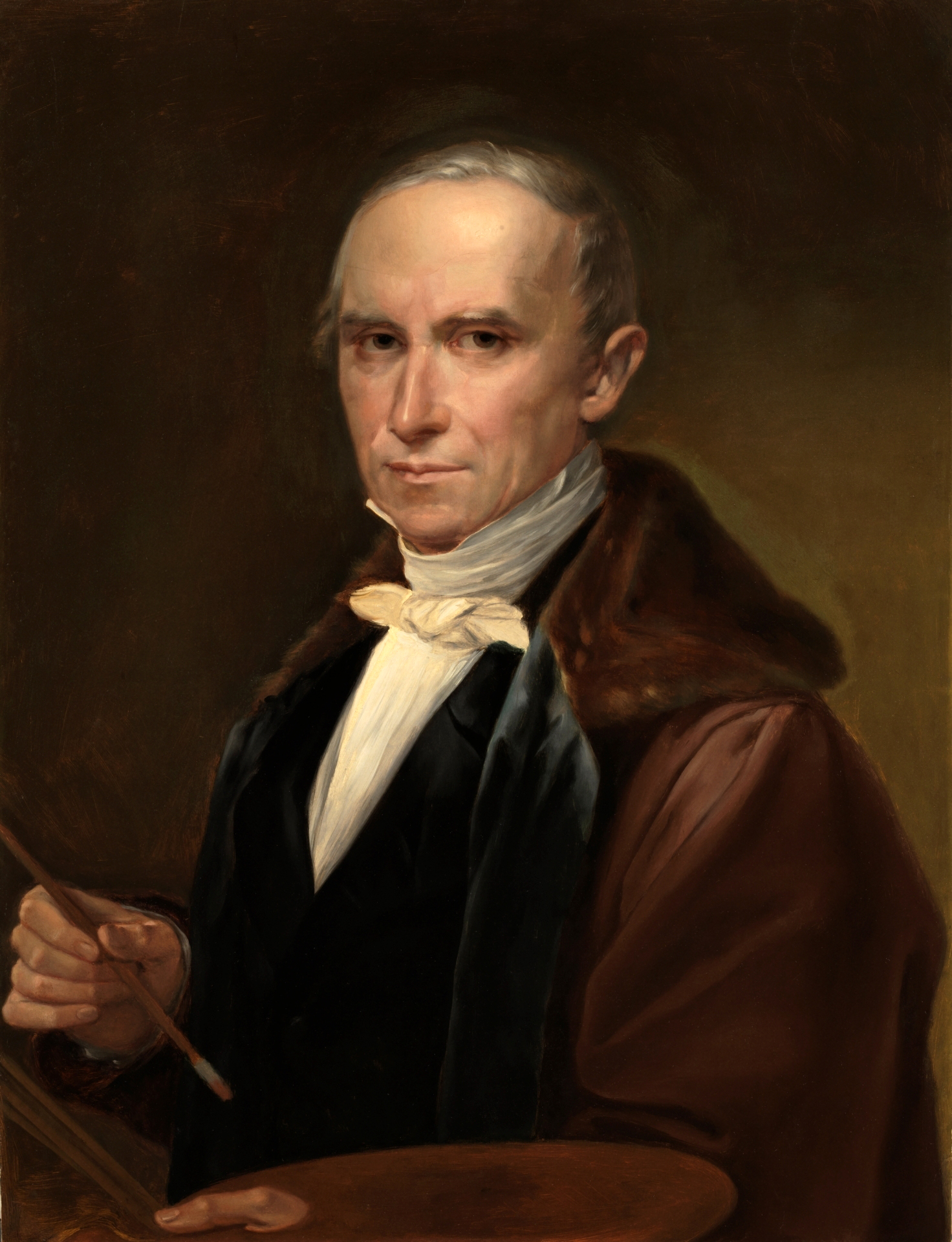 "Selfportrait", José de Madrazo, Prado Museum, Madrid, Spain.